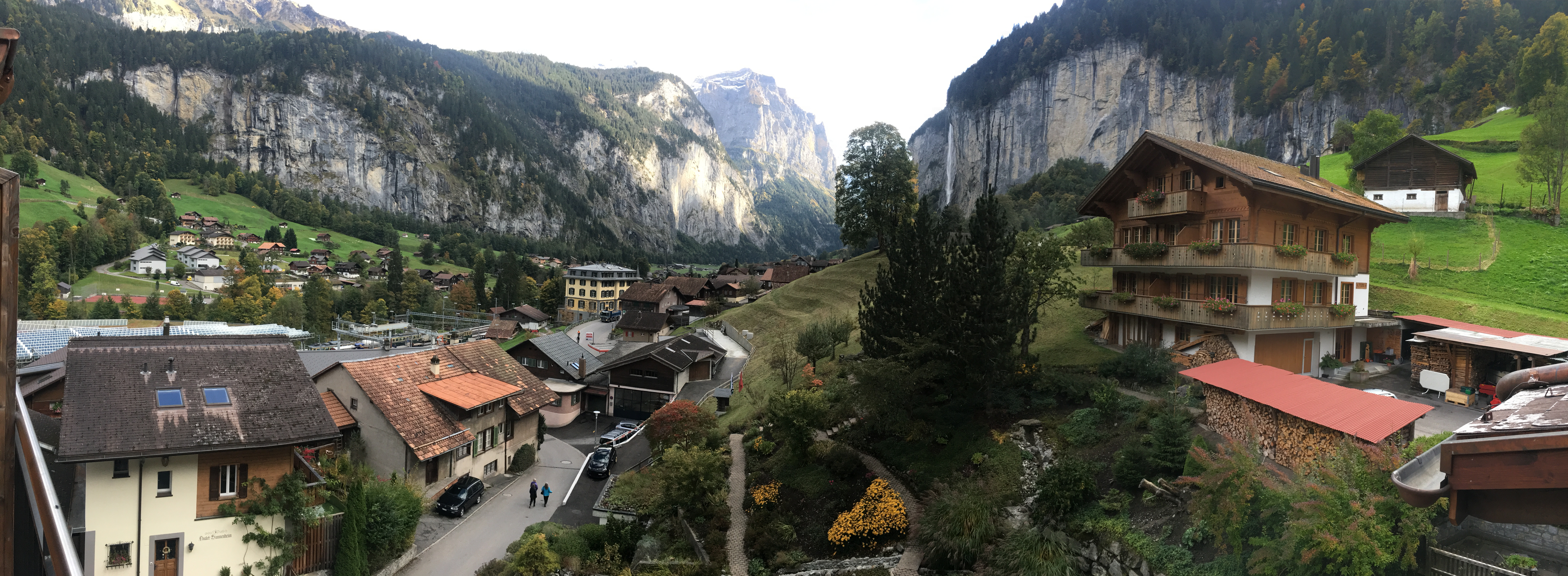 The quaint town of Lauterbrunnen and Staubbach Falls